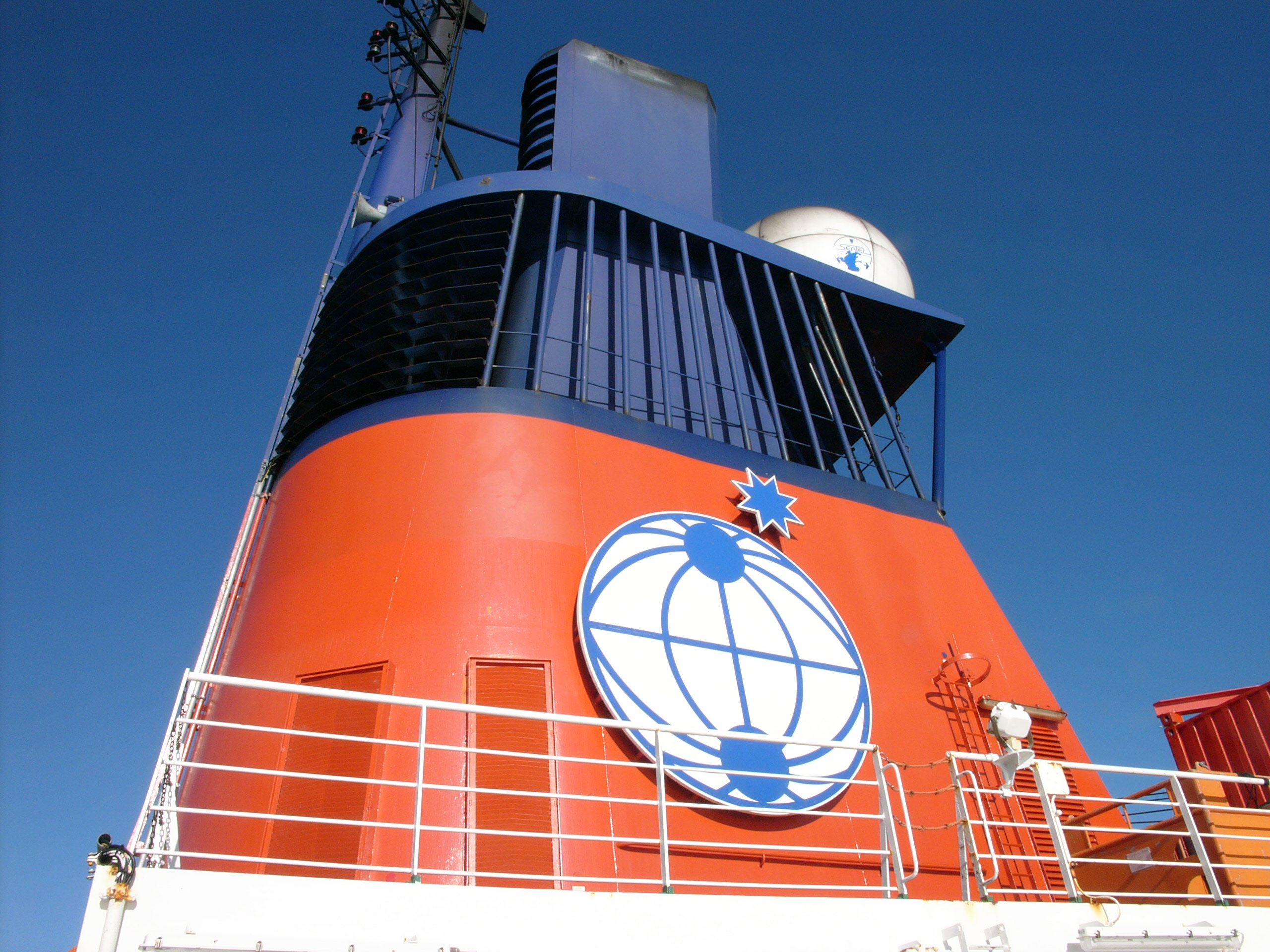 Funnel of the german research vessel POLARSTERN with the logo of the Alfred Wegener Institute for Polar and Marine Research, Bremerhaven